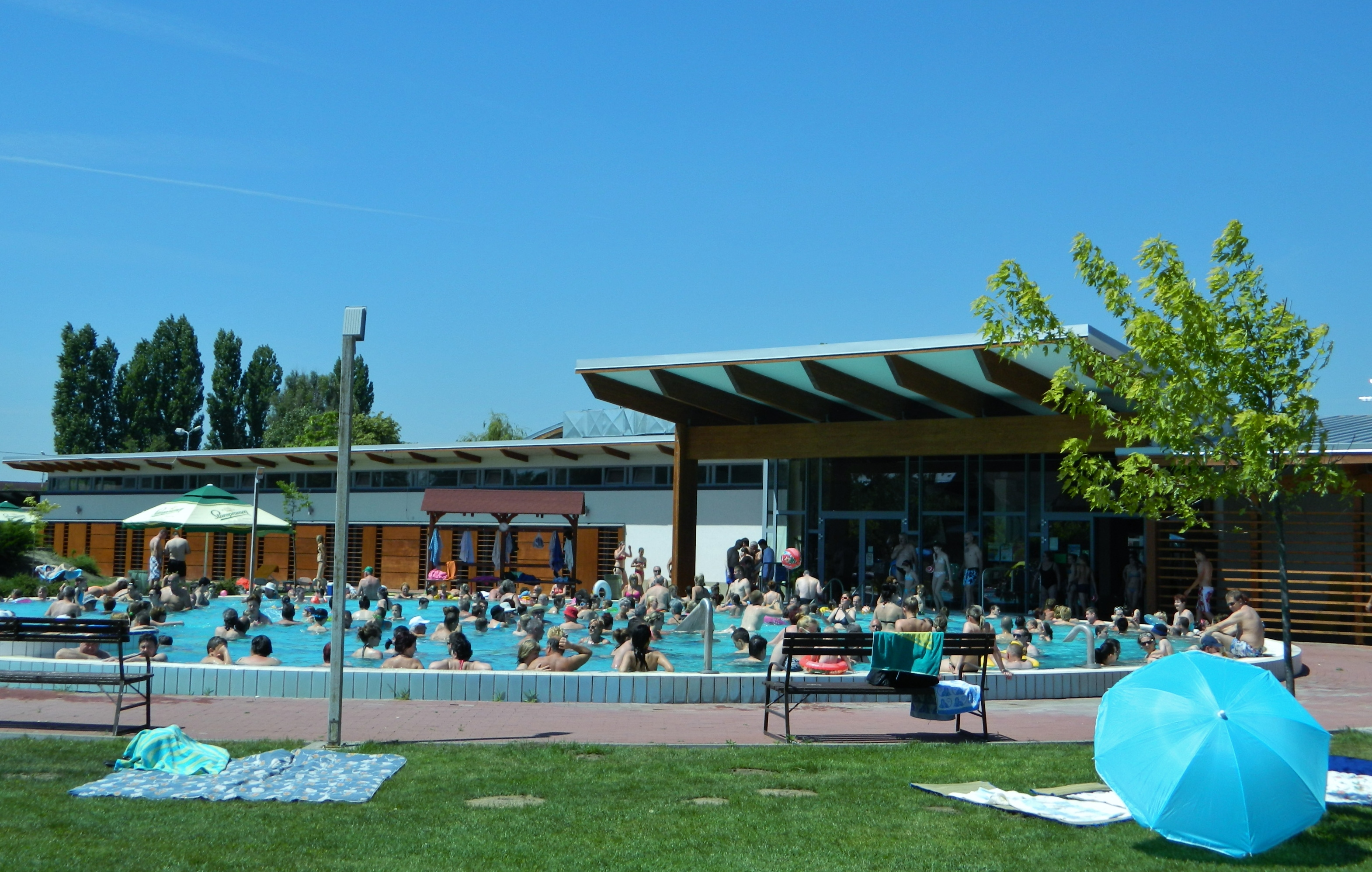 Thermal bath in Tiszakécske